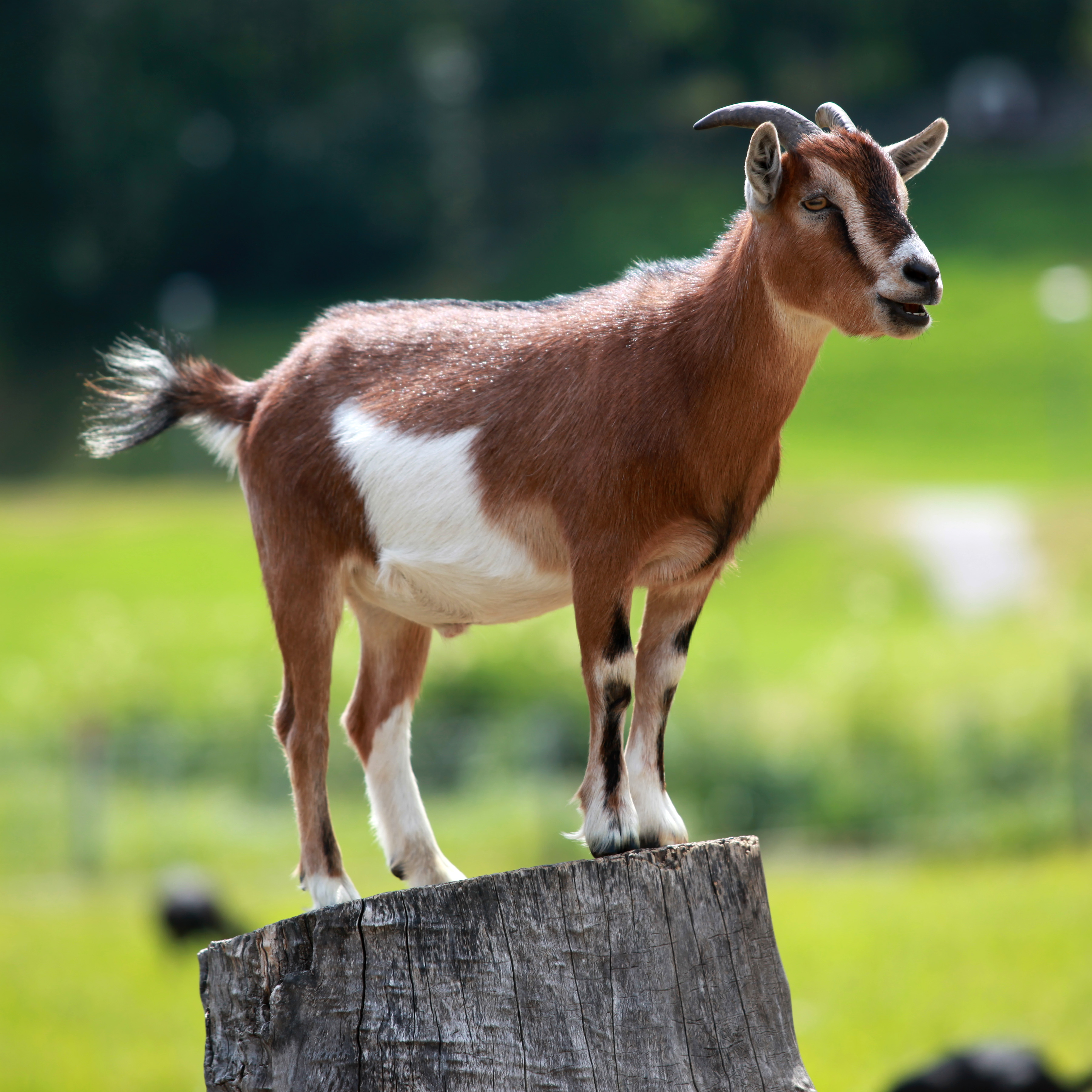 Goat, located in Fiesch, Valais (Switzerland).